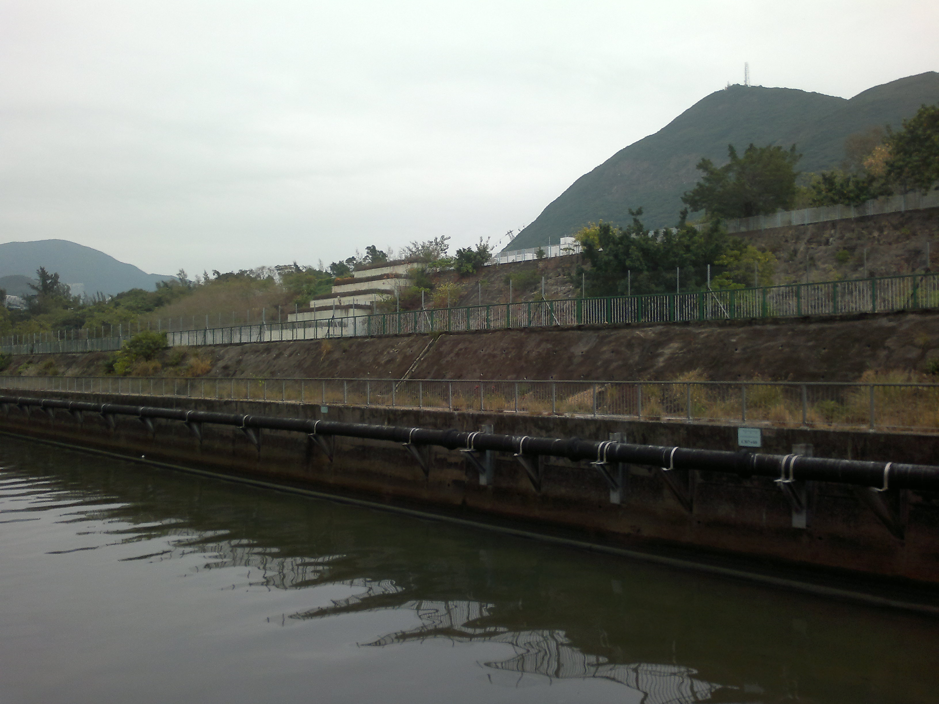 Former Site of Wong Chuk Hang Estate